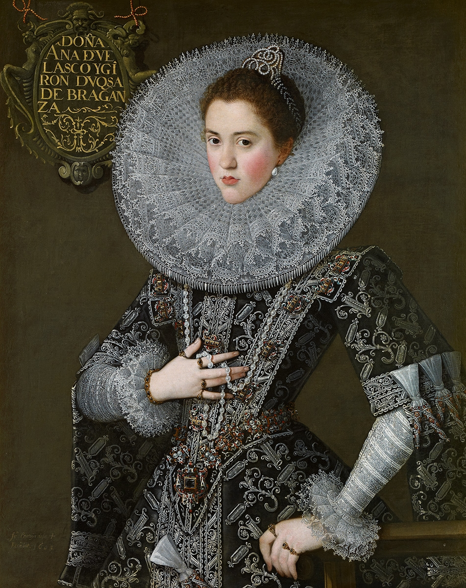 Portrait of Doña Ana de Velasco y Girón, duchesse of Bragance by Juan Pantoja de la Cruz, 1603